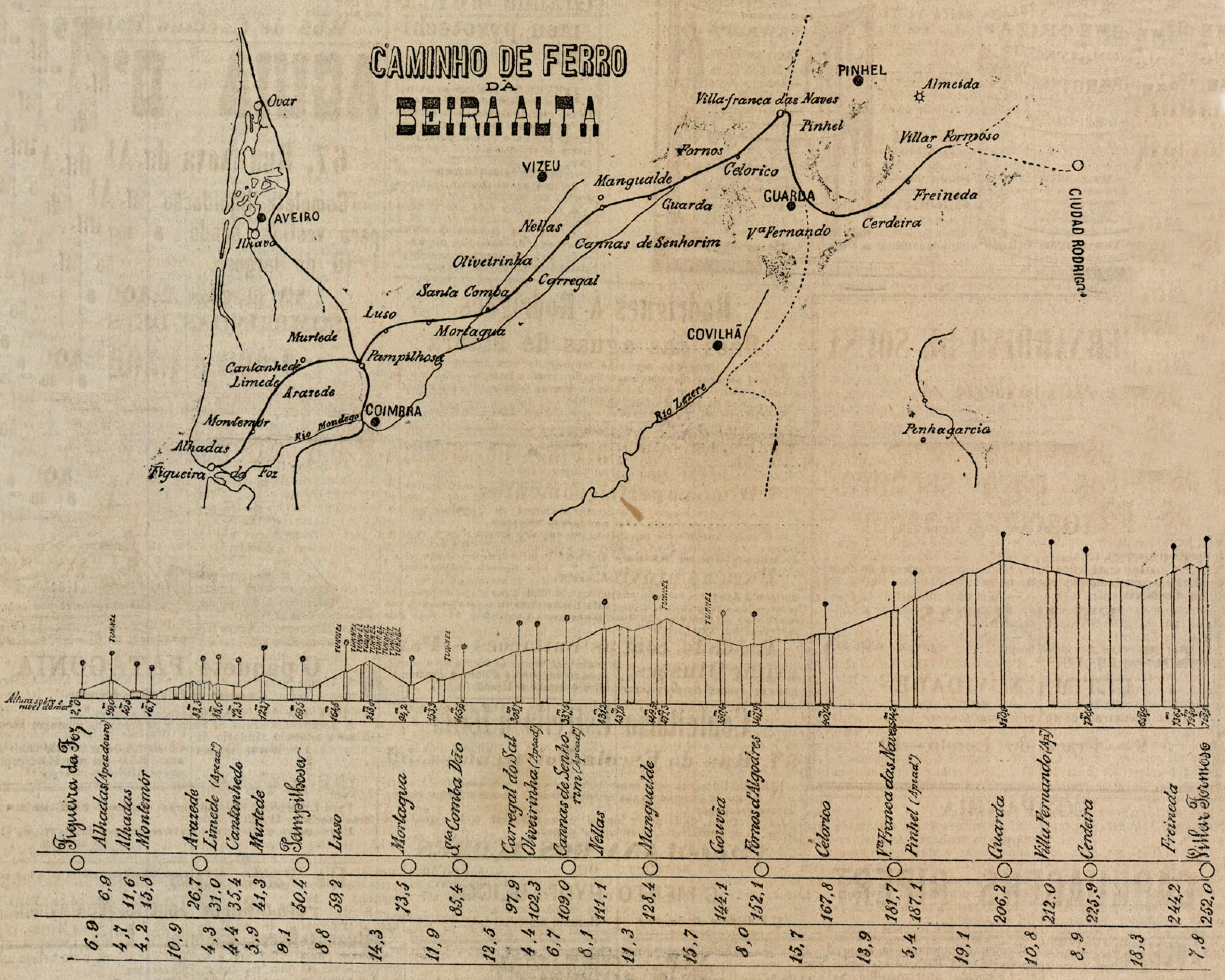 Map of the Linha da Beira Alta (Beira Alta Railway), that wasa inaugurated in 1882. This image was published on the Diario Illustrado newspaper No. 3307, of 24th July 1882, and scanned by the Biblioteca Nacional de Portugal.